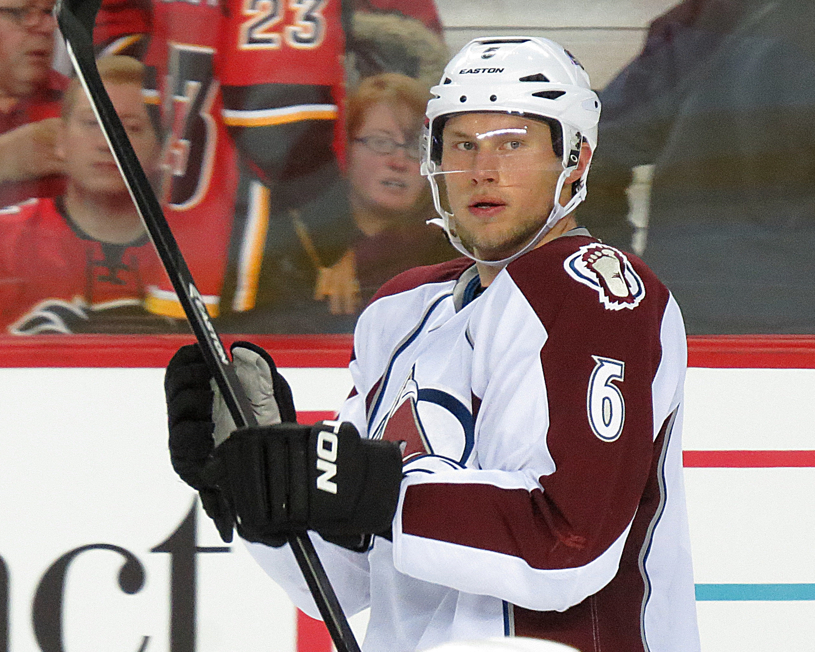 Erik Johnson of the Colorado Avalanche during the 2013–14 season.